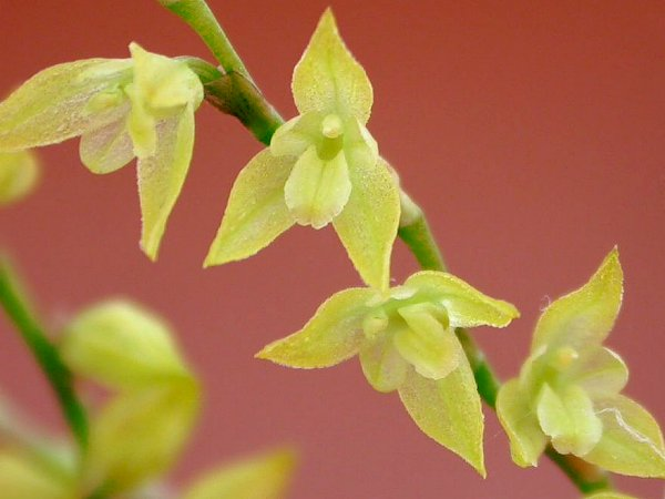 Anathallis